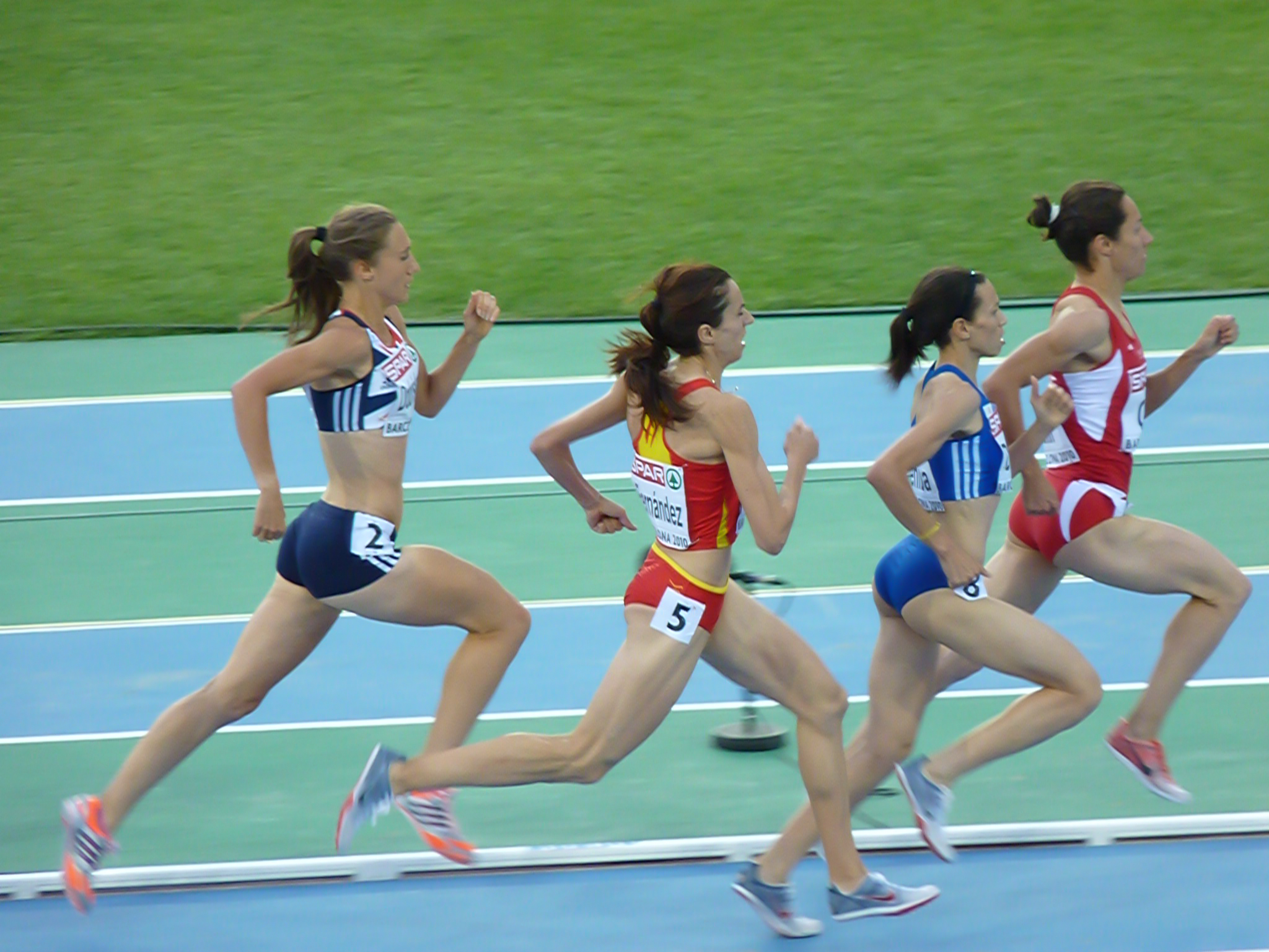 Nuria Fernández (5) and Hind Dehiba (8) in the qualifying heat of the 1500 m, in the 2010 European Athletics Championships. Lisa Dobriskey, Nuria Fernández, Hind Dehiba, Aslı Çakır Alptekin